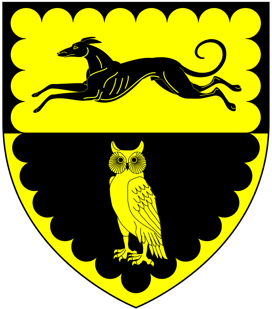 Arms of Ford family of Nutwell, in the parishes of Woodbury and Lympstone, Devon: Party per fesse or and sable, in chief a greyhound courant in base an owl within a bordure engrailed all counter-changed (Vivian, Heraldic Visitations of Devon, 1885, p.349). The Ford family was also seated at various times at: Chagford; Ashburton; Bagtor, Ilsington